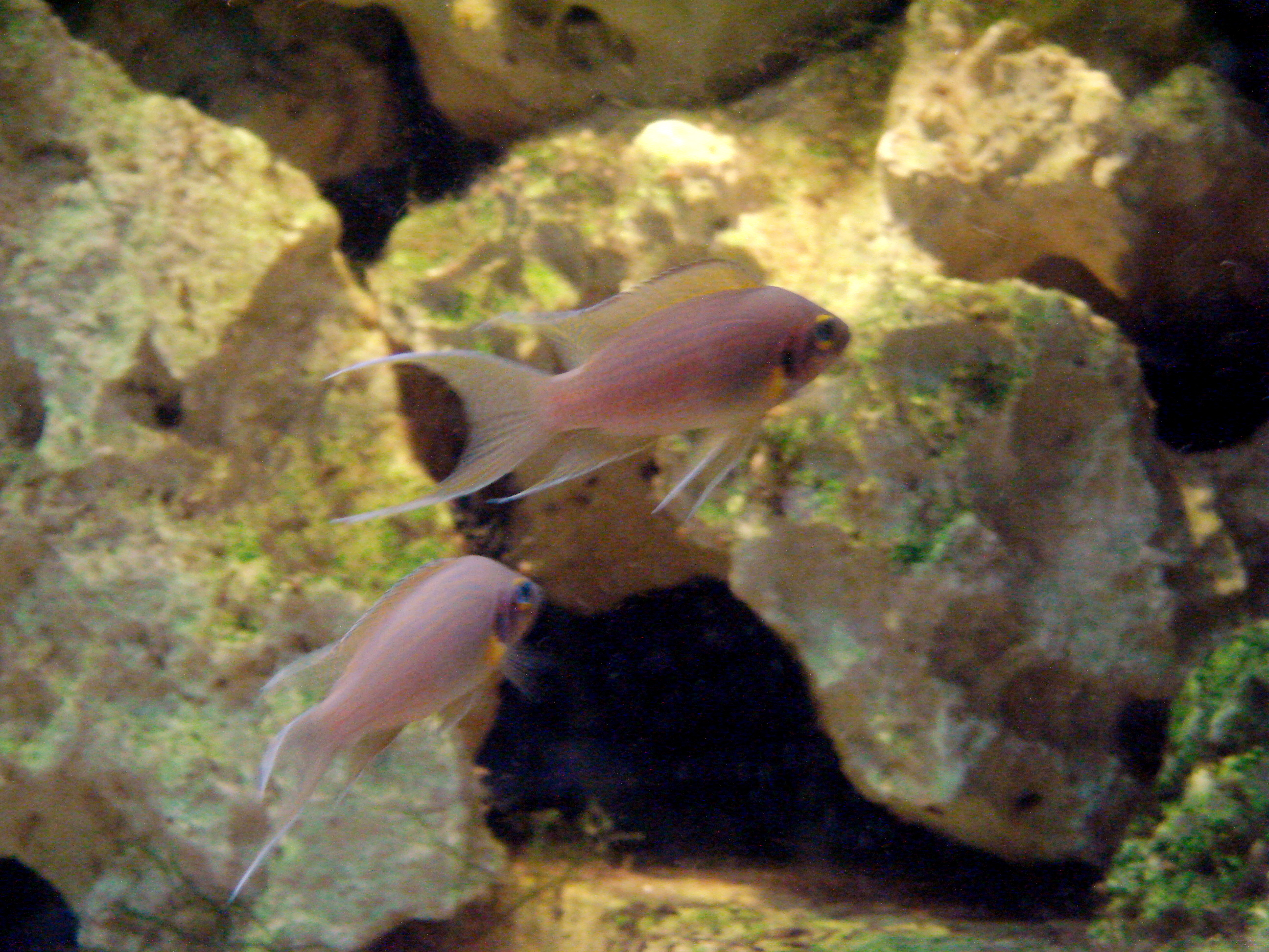 Picture taken in the zoo of Wrocław (Poland): Neolamprologus pulcher (Trewavas & Poll, 1952) This is one of the "Daffodil" populations, possibly a distinct species. Dysmorodrepanis (talk) 23:39, 25 August 2008 (UTC)